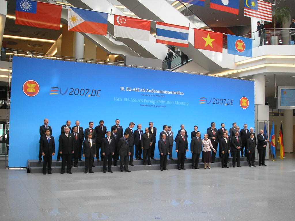 Meeting of the European Union-ASEAN foreign ministers at the CongressCenter Nürnberg, March 2007